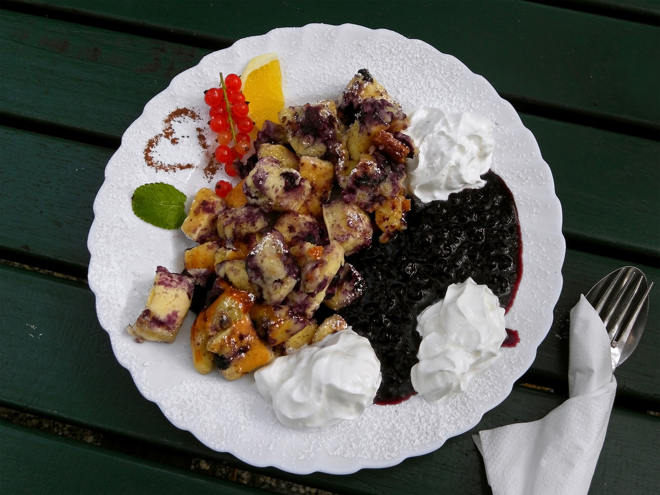 Heidelbeerschmarrn is a variant of Austria's national food, Kaiserschmarrn